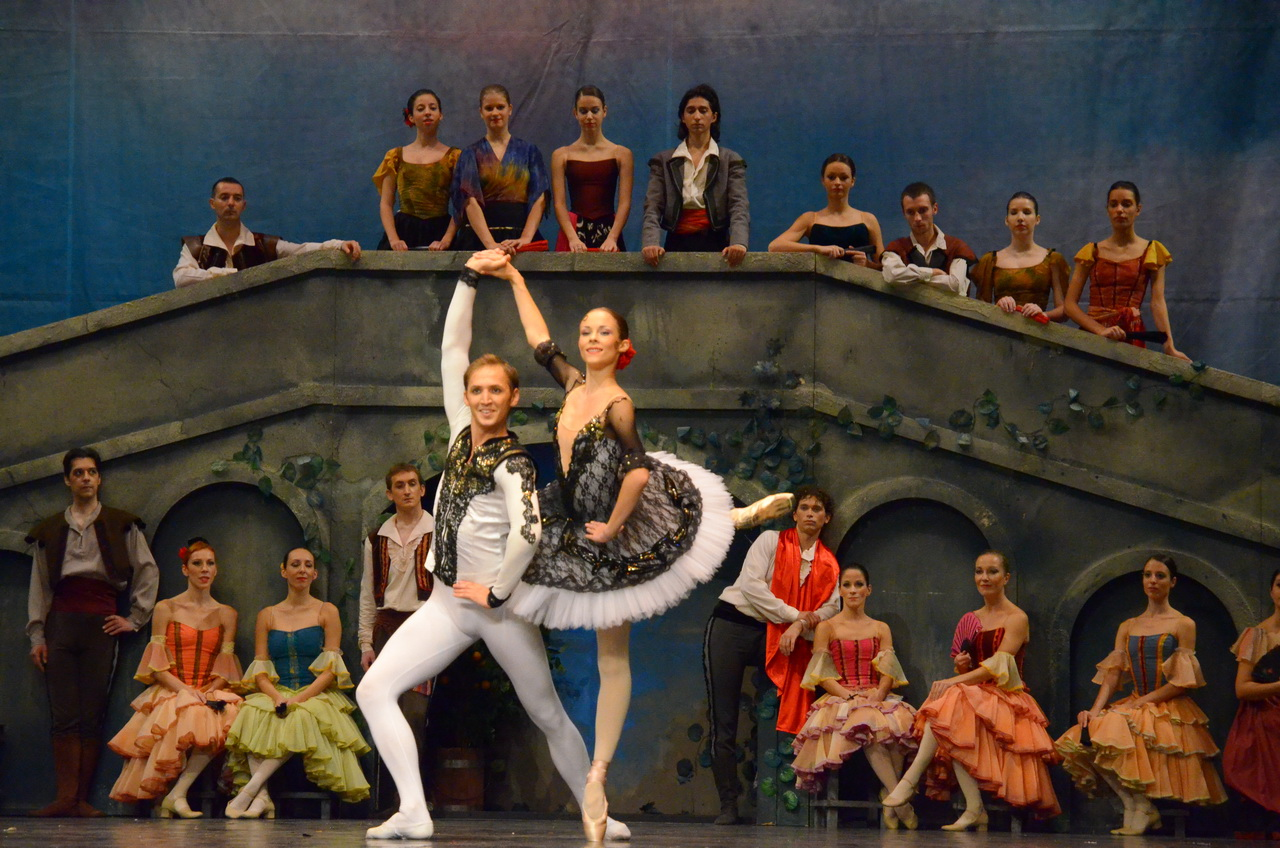 "Don Quixote", the ballet based on episodes taken from the famous novel "Don Quixote de la Mancha" by Miguel de Cervantes, originally choreographed by Marius Petipa to the music of Ludwig Minkus; Balet SNT, Novi Sad, 2010/11; Ana Đurić, Liviju Har Srpski (latinica): "Don Quixote", balet napisan na osnovu romana "Don Kihot" Migela Servantesa, originalno postavljen od Marijusa Petipe na muziku Ludviga Minkusa; Ballet of the SNT, Novi Sad, 2010/11; Ana Đurić, Liviju Har, Српски (ћирилица): "Дон Кихот", балет написан на основу романа "Дон Кихот" Мигела Сервантеса, оригинално постављен од Маријуса Петипе на музику Лудвига Минкуса; Балет СНП, Нови Сад, 2010/11; Ана Ђурић, Ливију Хар